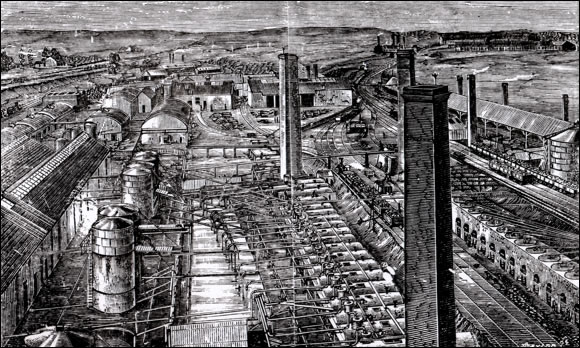 A substantial industrial complex, in its time one of the largest chemical works in Scotland. Construction began in 1866. Addiewell remained the centre of operations for Young's Paraffin Light and Mineral Oil Co. Ltd, but as local supplies of shale became exhausted, activities were increasingly focussed on shale-fields to the east at Hopetoun, Newliston and Ingliston whose output was retorted at Hopetoun or Uphall oil works. The refinery at Addiewell closed c.1921, after Pumpherston had been developed as the central refinery for all output of Scottish Oils Ltd. Addiewell candleworks continued until c.1923. The crude oil works continued until c.1956 and the site remained derelict for many years, the final works buildings being cleared c.1986